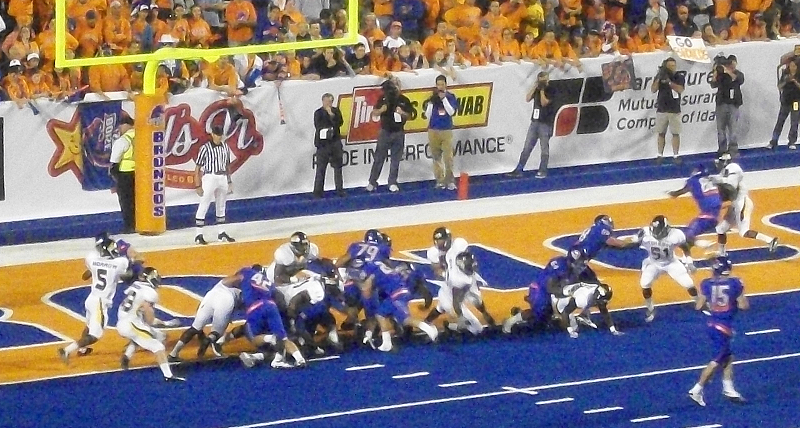 Boise State's offense scoring a touchdown against Toledo during their game on October 9, 2010 at Bronco Stadium in Boise, Idaho.